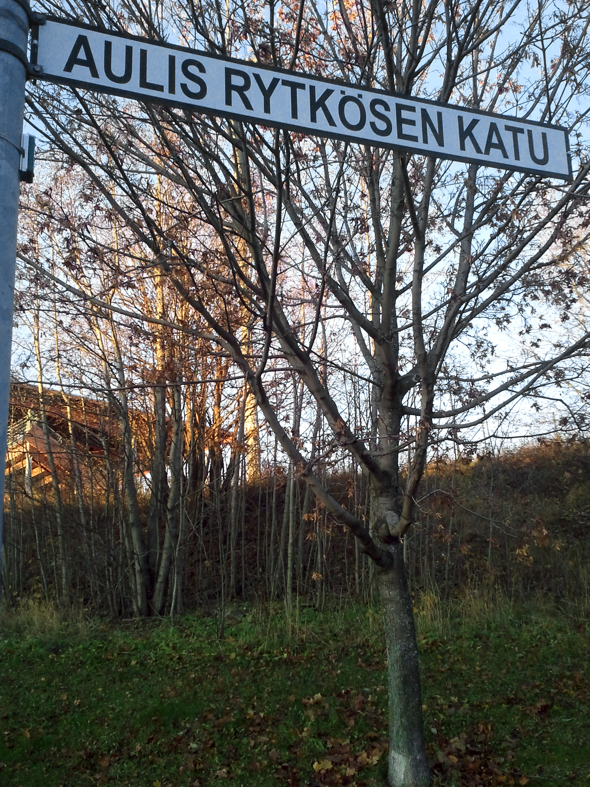 Aulis Rytkösen katu in Kuopio, Finland. Kuopion keskuskenttä -football stadium in the background.